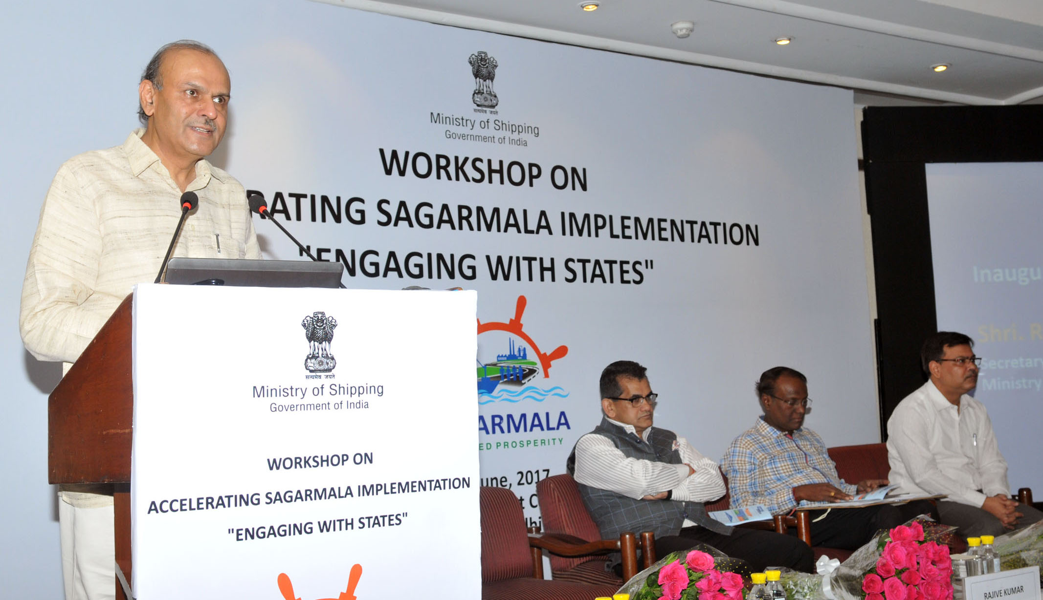 The Secretary, Ministry of Shipping, Shri Rajive Kumar addressing at a workshop titled ‘Accelerating Sagarmala Implementation – Engaging with States’, under Aegis of Sagarmala programme, in New Delhi on June 09, 2017.The CEO, NITI Aayog, Shri Amitabh Kant is also seen.